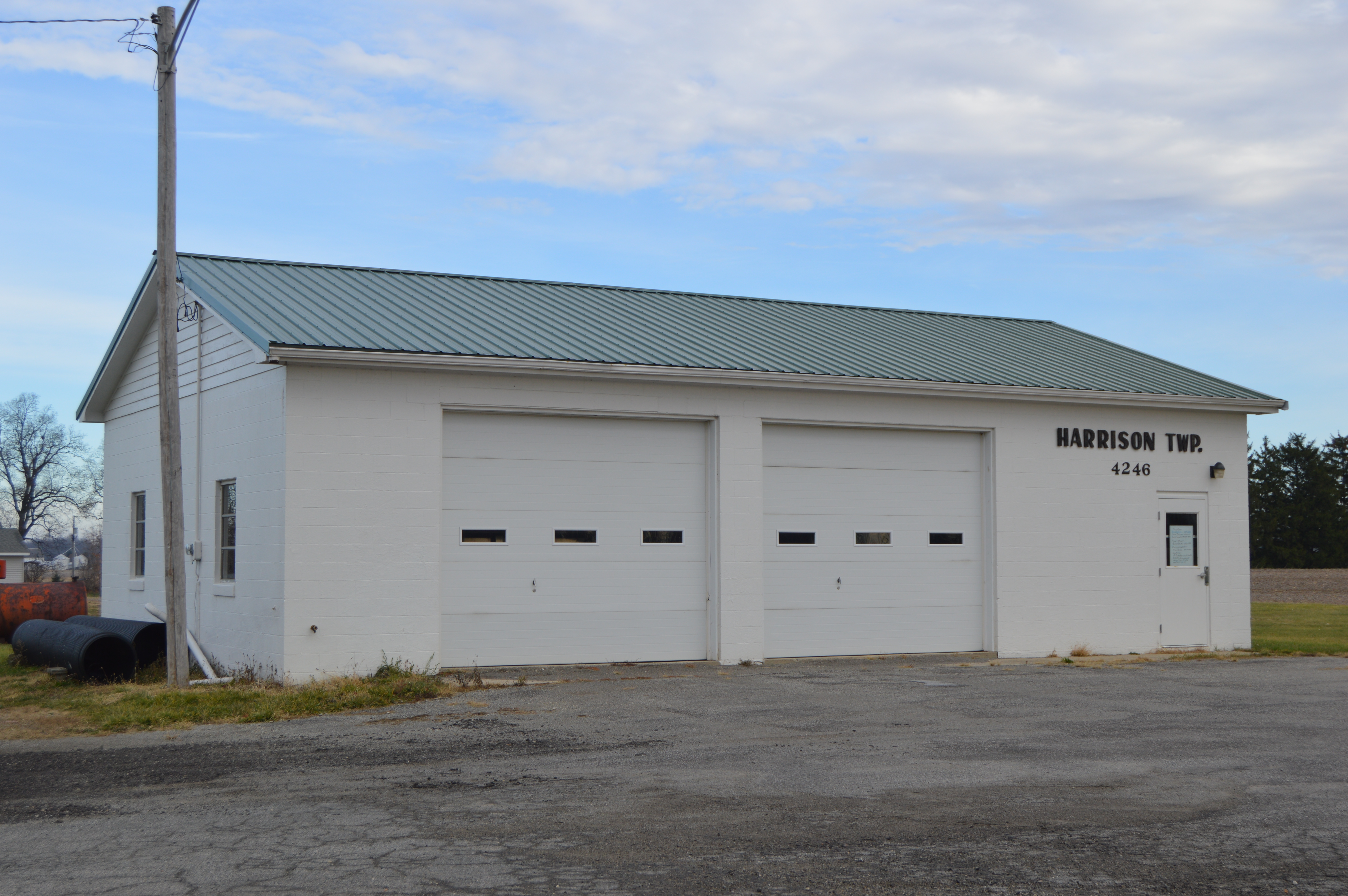 Front and western side of the Harrison Township hall, located at 4246 State Route 47 west of Bellefontaine in Logan County, Ohio, United States.